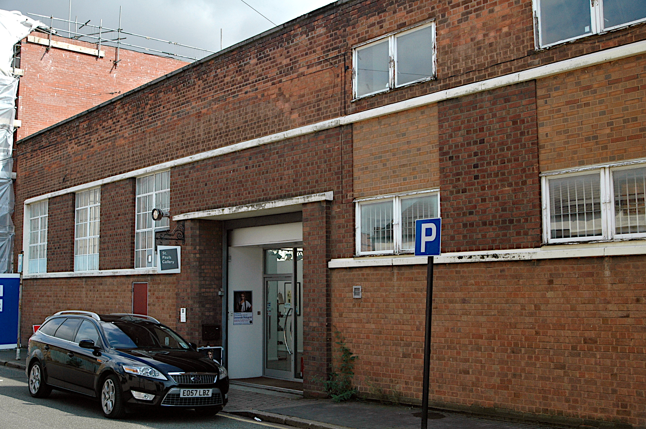 This is the entrance to St Paul's Gallery in the Jewellery Quarter, Birmingham.